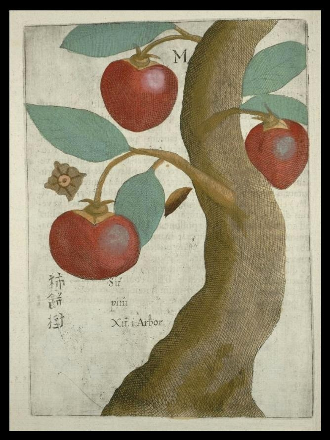 One of the earliest natural history books about China. Jesuit Missionary author. (obviously includes some non-Chinese {and non-floral} species)